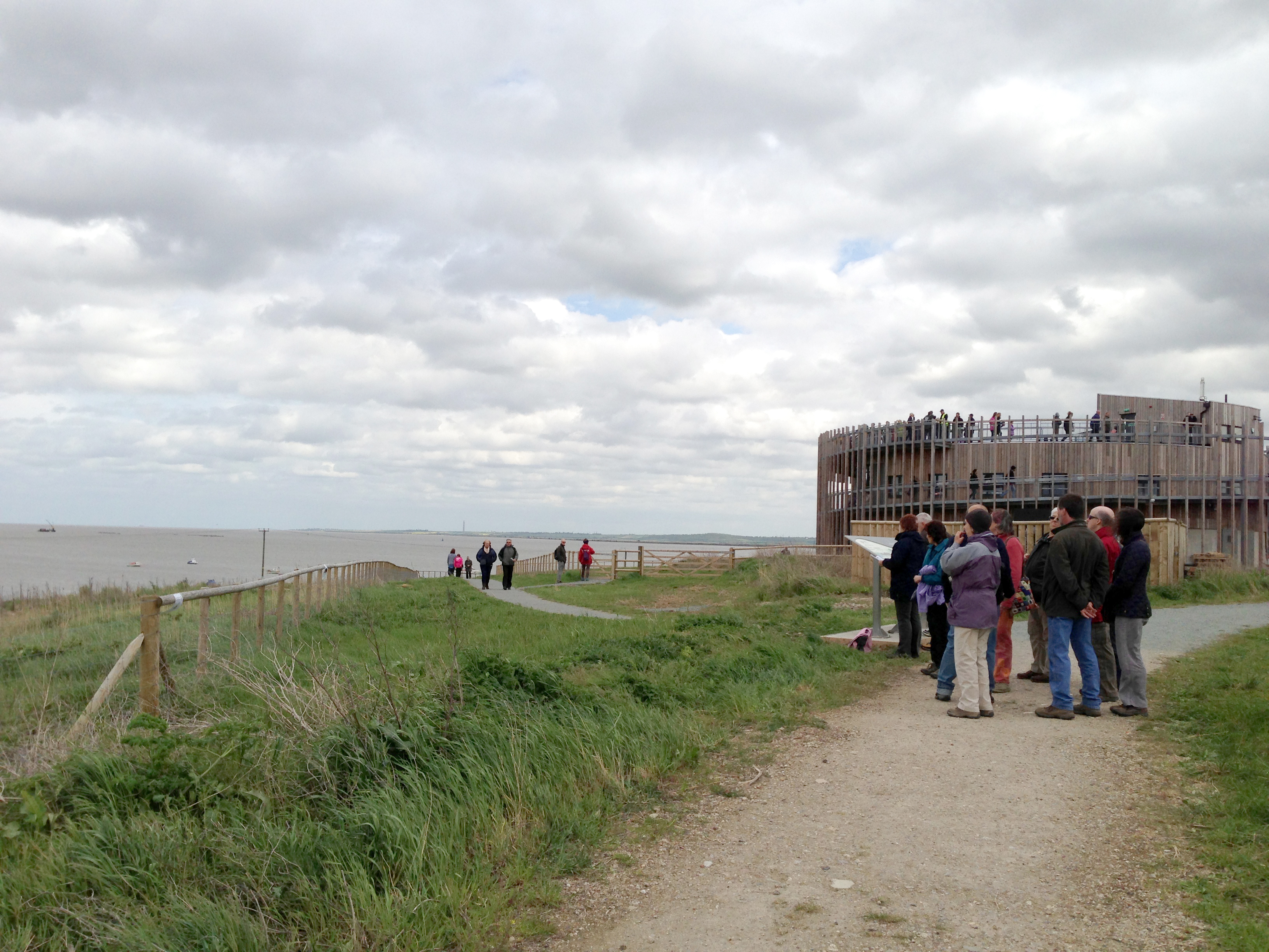 Image showing Cory Environmental Centre next to the Thames Estuary